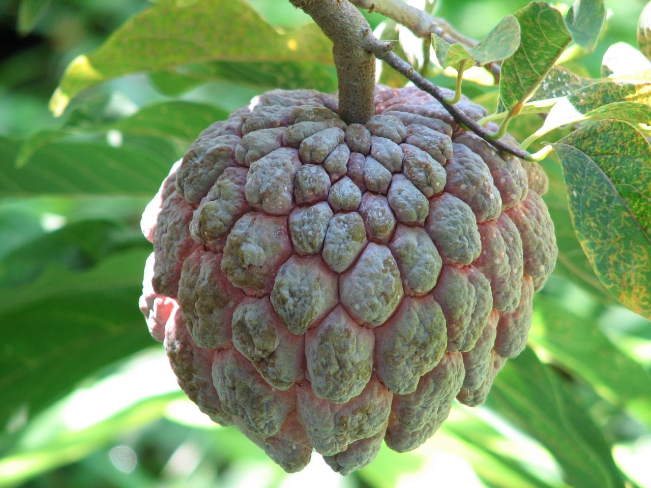 Sugar-apple fruit. Picture taken by Christopher Hind.